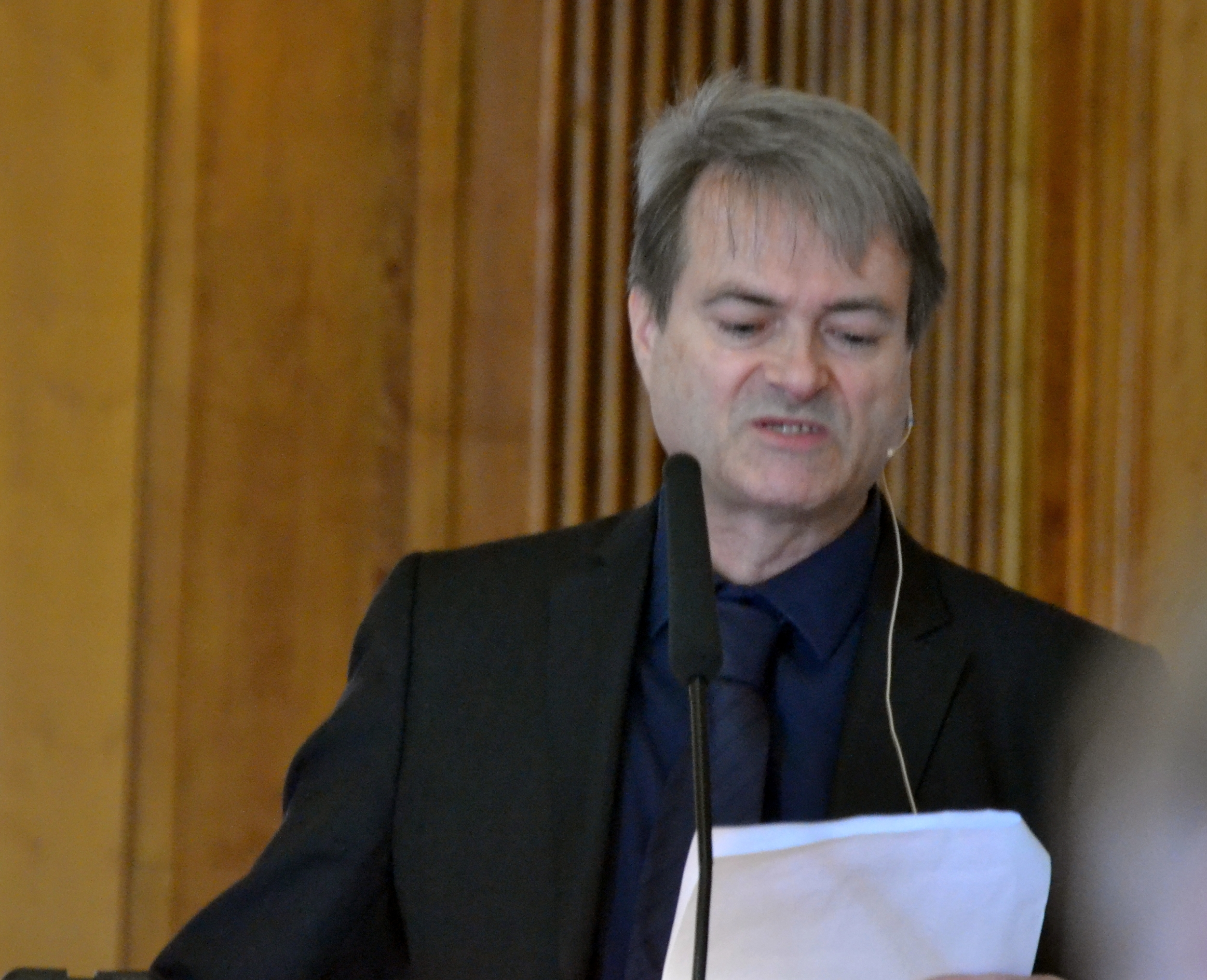 Academies day 2015 at the Berlin-Brandenburg Academy of Science in Berlin; Theme: "Old world today: Perspectives and threats". Image: Papyrologist Professor Jürgen Hammerstaedt.